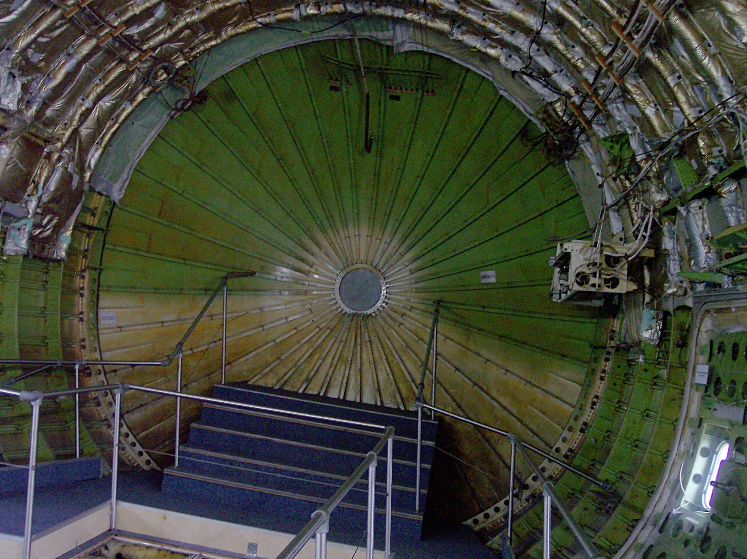 The rear pressure bulkhead of a Boeing 747-200, seen at the Technik Museum Speyer